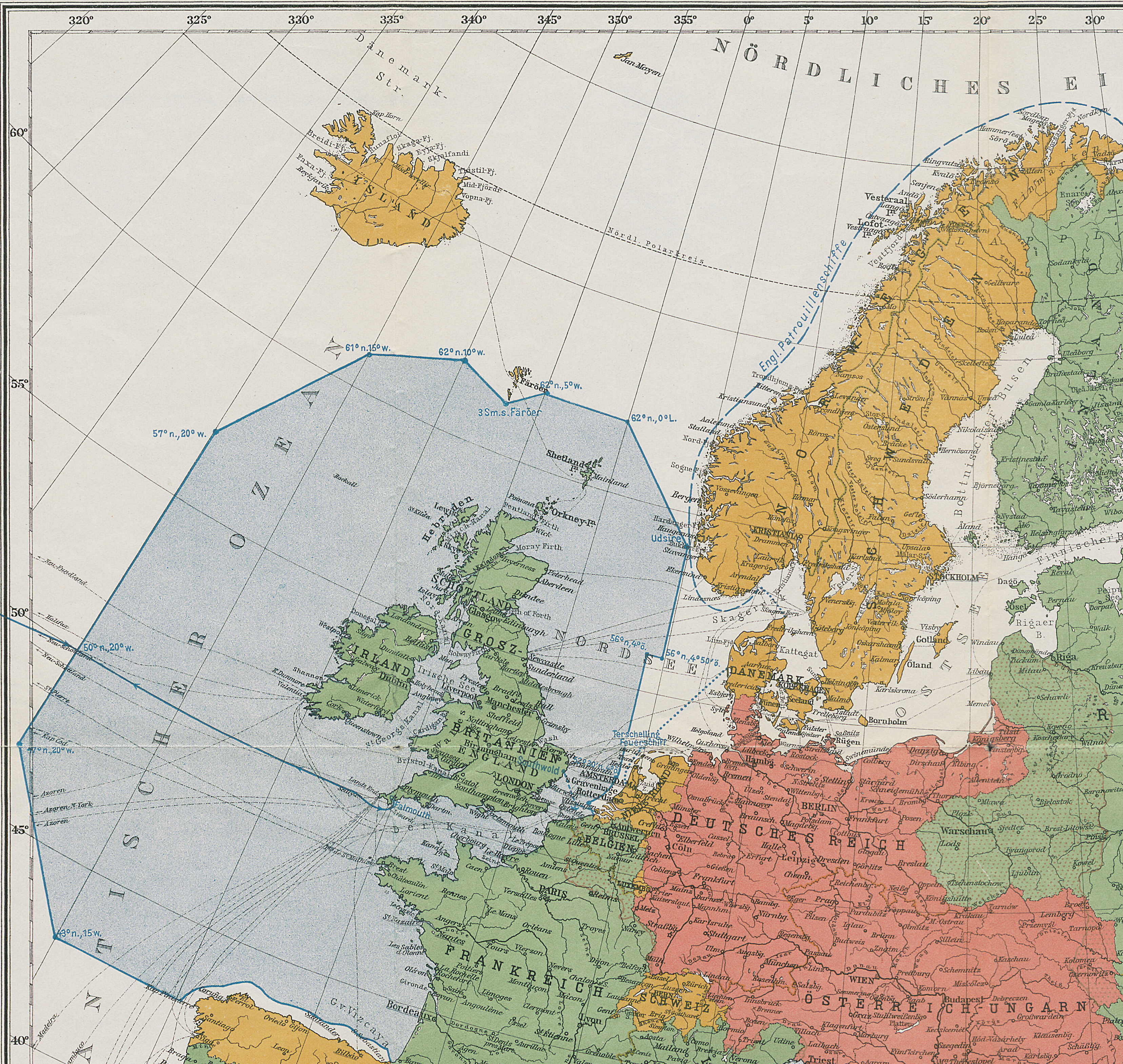 Area of unrestricted submarine warfare, waged by Germany against Britain and her allies, in the North Sea theater during the First World War.